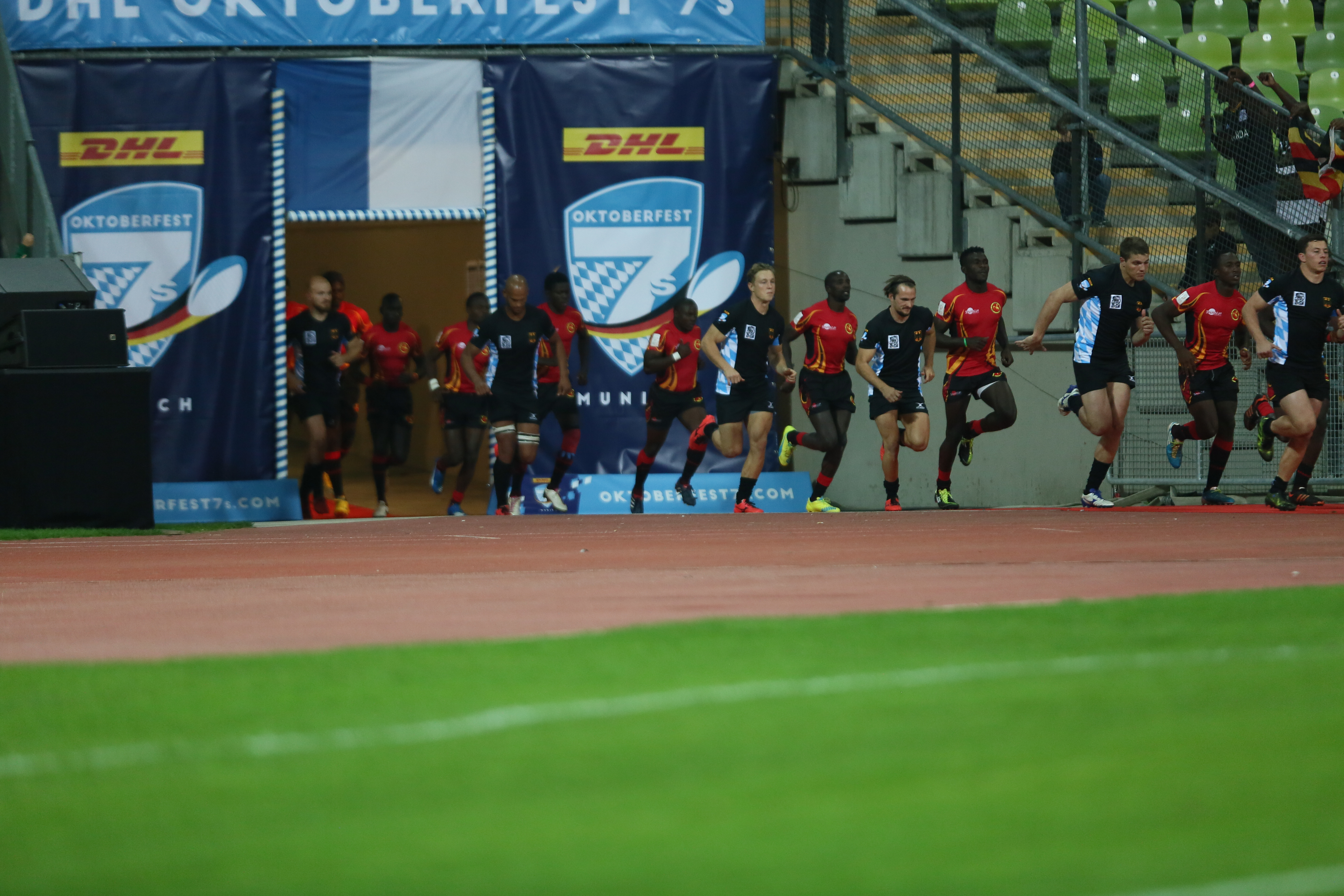 Rugby tournament "Oktoberfest 7s", Munich, 2017-09-29/30 at the Olympic stadium of Munich